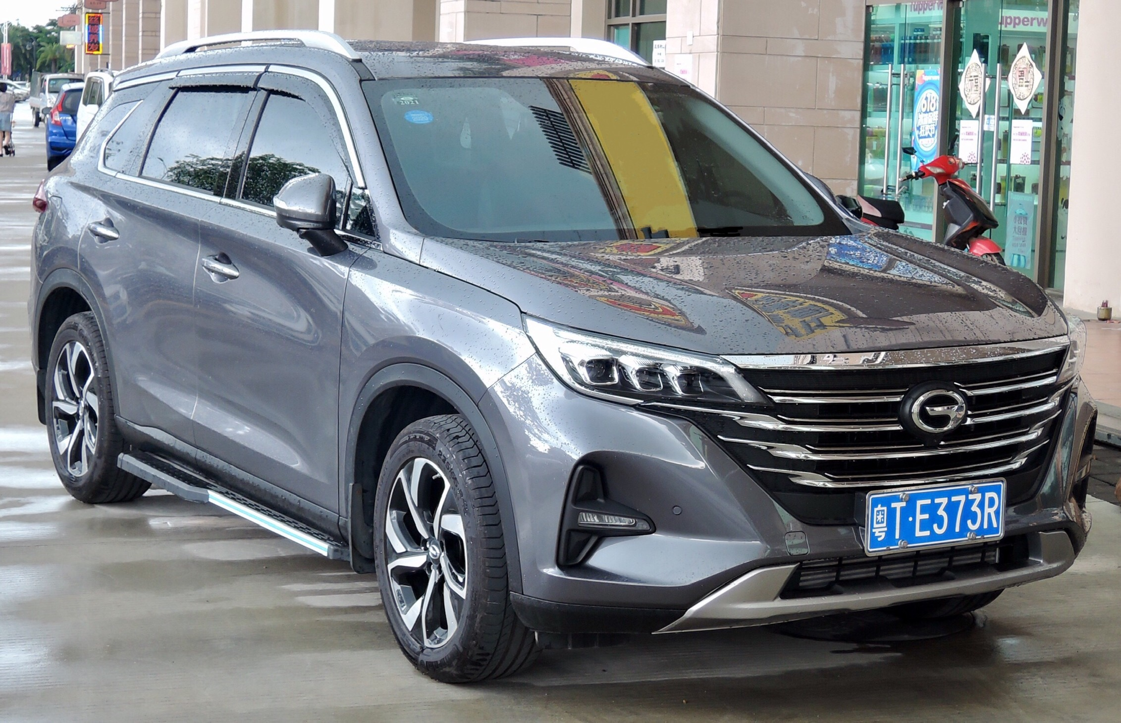 A 2019 GAC Trumpchi GS5 taken in Zhongshan, Guangdong province, China. 中文（中国大陆）: 一辆2019年的广汽传祺GS5，摄于中国广东省中山市。